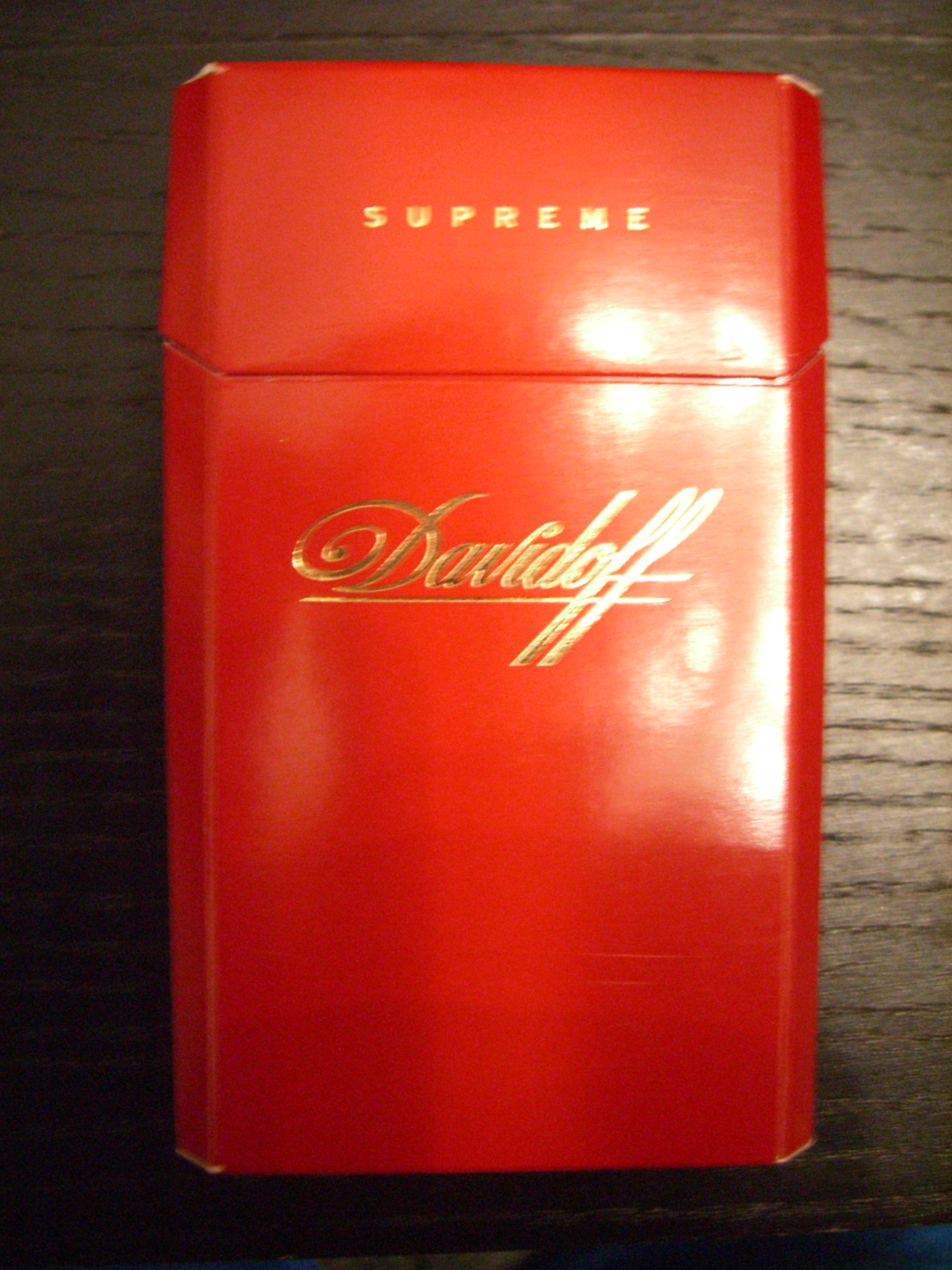 A picture taken by me.